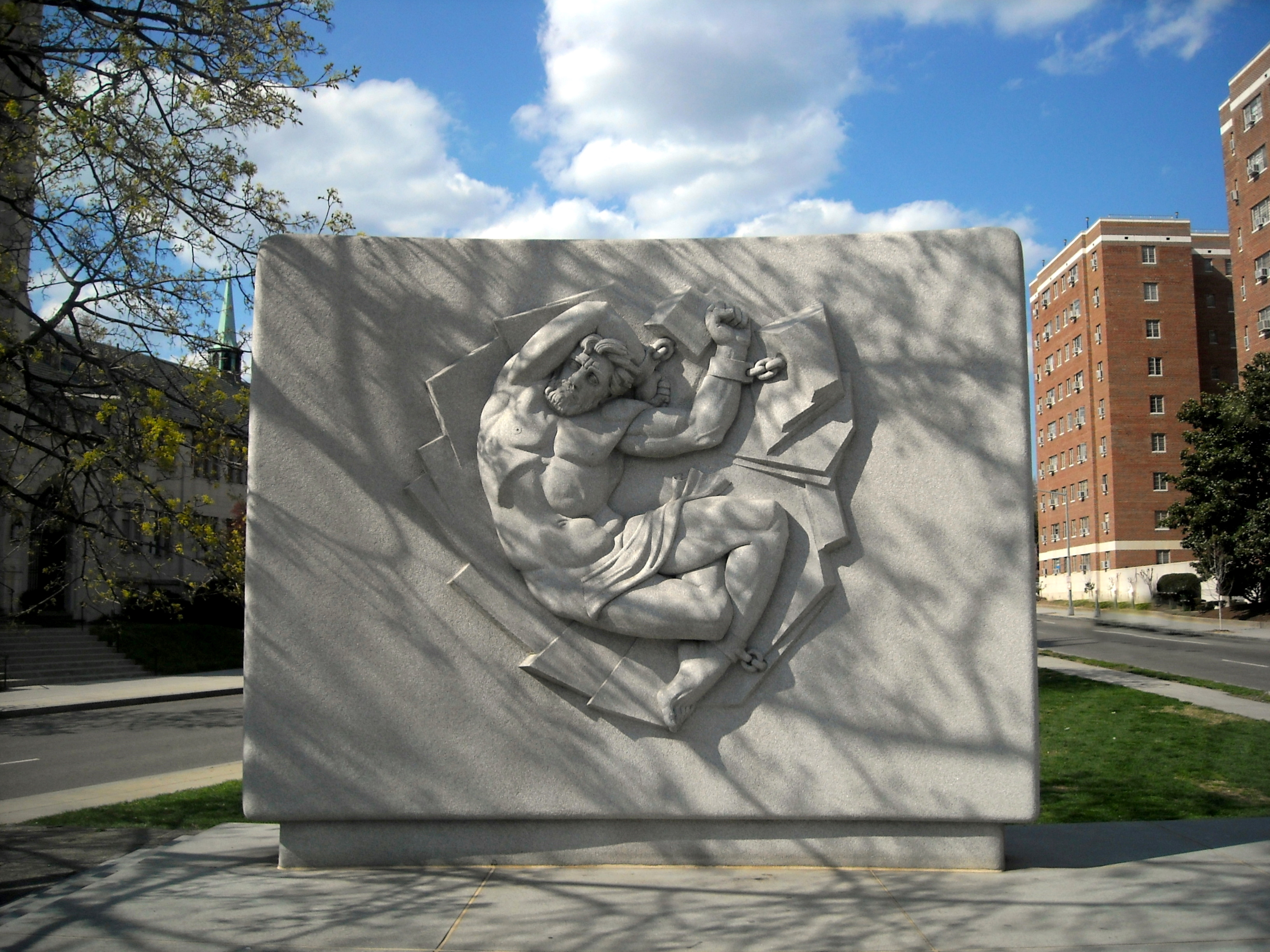 The Taras Shevchenko Memorial, located near the intersection of 22nd and P Streets, NW, in the Dupont Circle neighborhood of Washington, D.C. The statue was sculpted by Leo Mol, and the stonework was created by the Jones Brothers Company. A relief depicting Prometheus is located beside the statue. The memorial was authorized by Congress on September 13, 1960, and dedicated on June 27, 1964. It is administered by the National Park Service, a federal agency of the United States Department of the Interior.